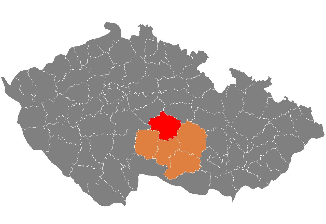 Location of Havlíčkův Brod District in Vysočina Region and the Czech Republic.